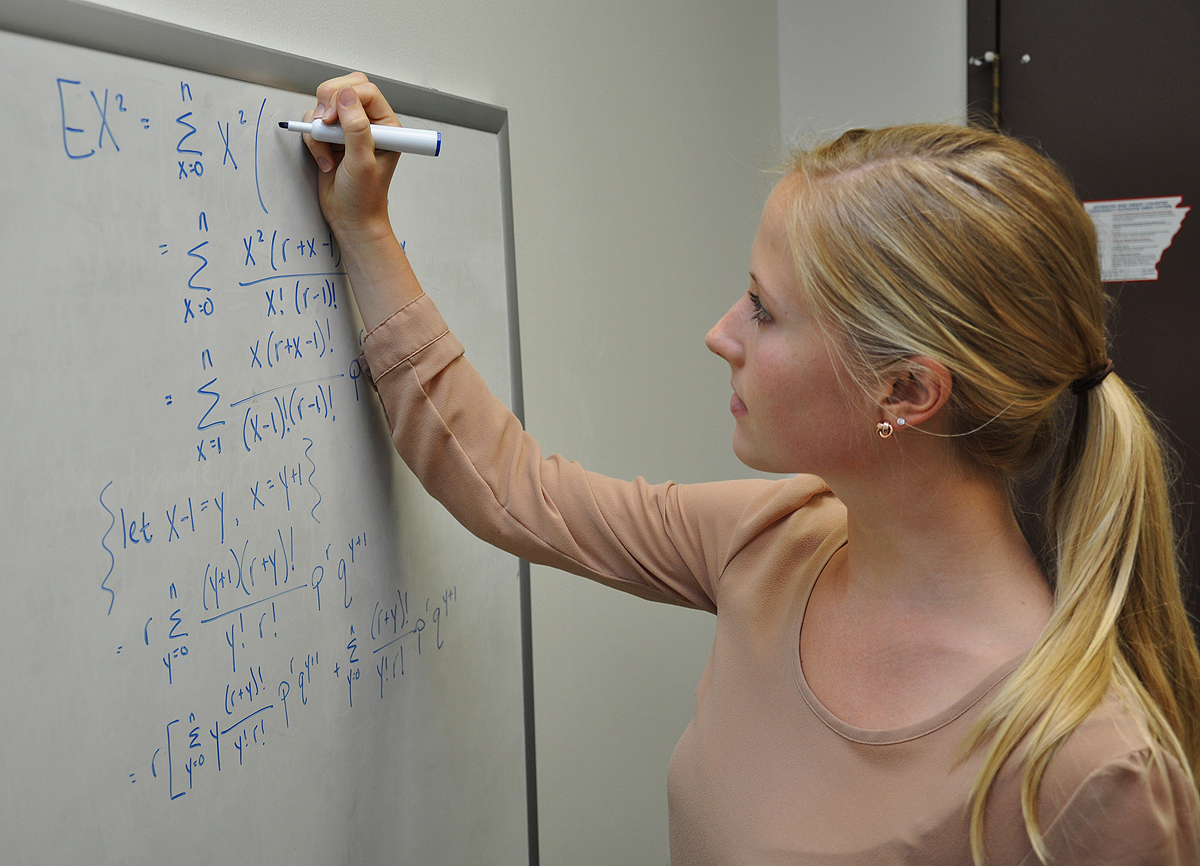 NCTR Intern Claire Boyle, is a graduate student from Florida State University. Practical, hands-on laboratory work is important for all college students who want to become scientists—but, for many of them, such experiences are out of reach. That’s one of the reasons why every summer, our National Center for Toxicological Research (NCTR)—FDA’s internationally acclaimed toxicological research center in Jefferson, Arkansas—hosts a special internship program for science students interested in toxicology research. Read the FDA Voice blog post to learn more. This photo is free of all copyright restrictions and available for use and redistribution without permission. Credit to the U.S. Food and Drug Administration is appreciated but not required. Privacy and use information: FDA photo by Danny Tucker